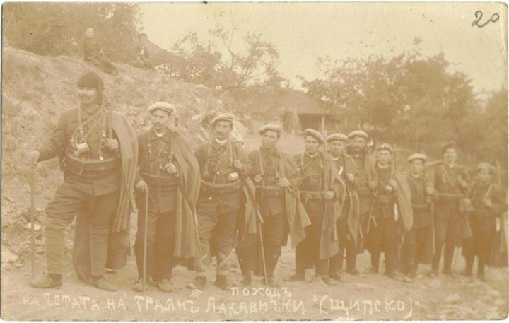 Cheta of IMRO with voevoda Trayan Lakavishki (left). Last is Vlado Chernozemski.